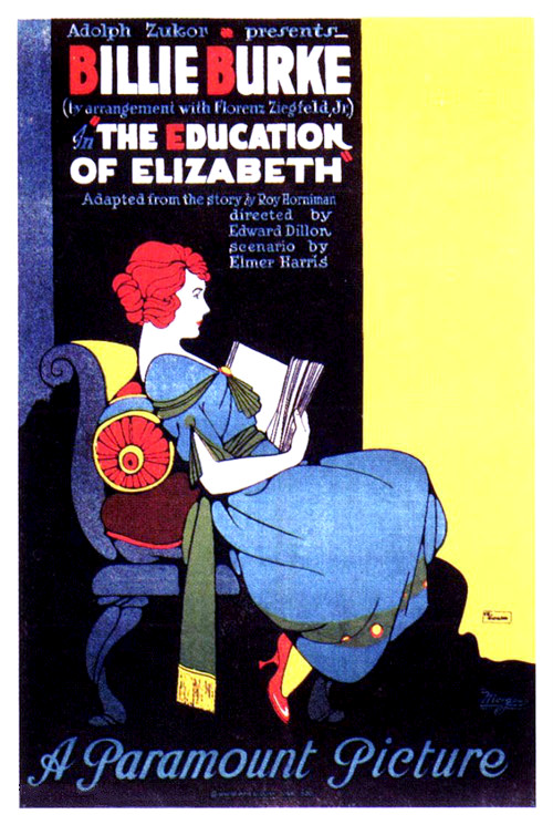 Poster for the 1920 film The Education of Elizabeth.